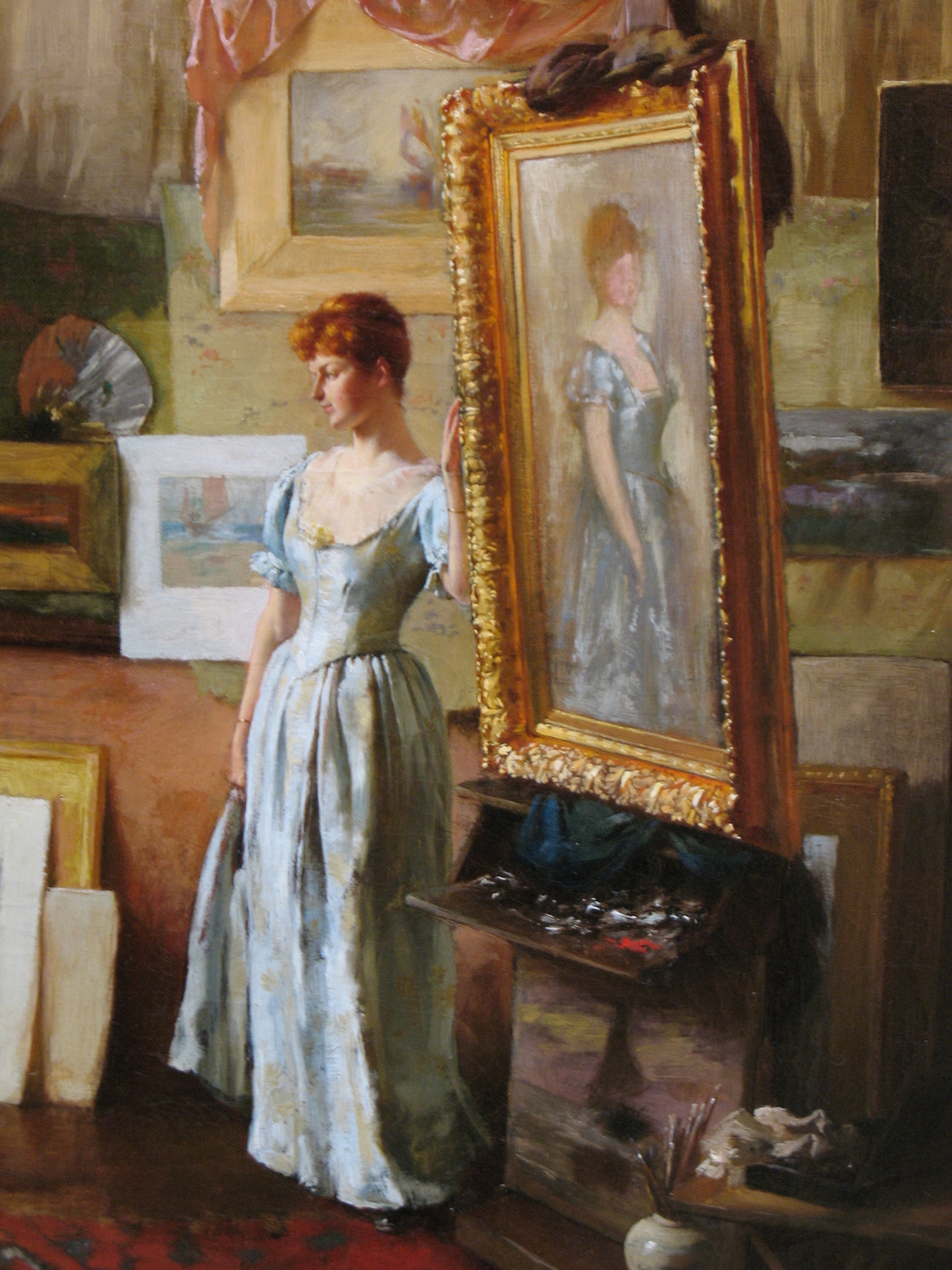 Detail of Fair Critics